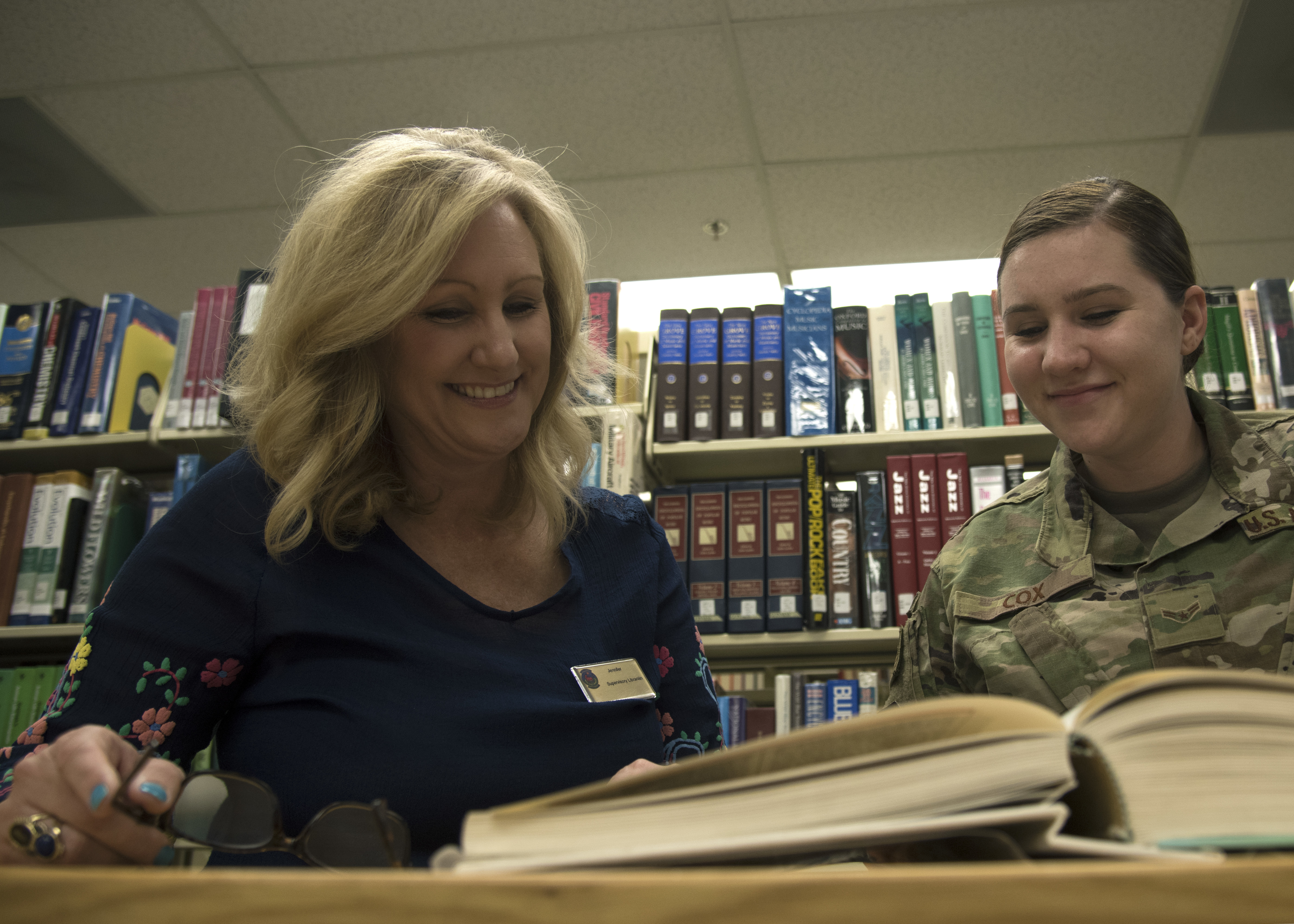 Jennifer Crowell, 56th Force Support Squadron library director, helps Airman 1st Class Zoie Cox, 56th Fighter Wing Public Affairs photojournalist, find an entry in a book April 8, 2019, at Luke Air Force Base, Ariz. The library houses more than 30,000 books, magazines, and other reference materials as well as internet access, computer stations and more. (U.S. Air Force photo by Airman Brooke Moeder)